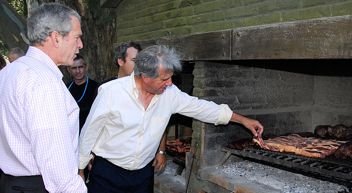 President Bush meets with the leaders of that lands, and samples a traditional barbecued beef, while admitting certain shortfallings in the fightings of the wars. External Link